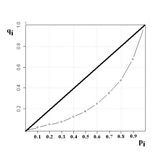 lorenz curve statistics